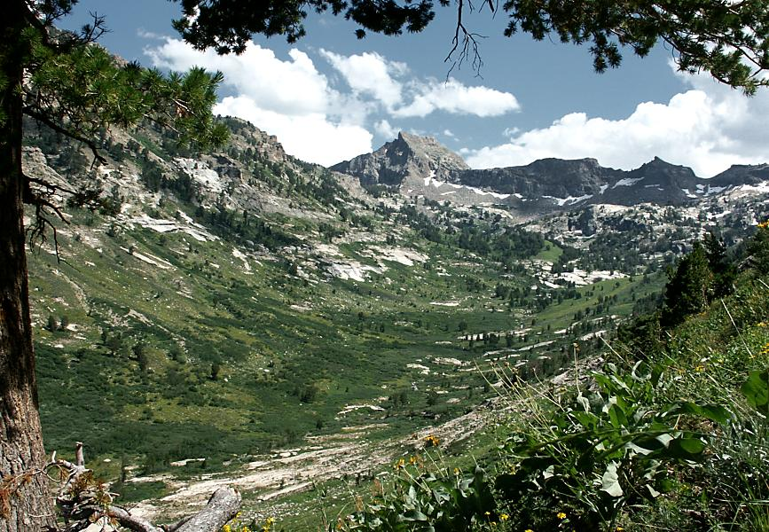 Upper Right Fork Canyon in the Ruby Mountains of Nevada, looking south from the flanks of Mt. Gilbert. At top center is Mount Fitzgerald.